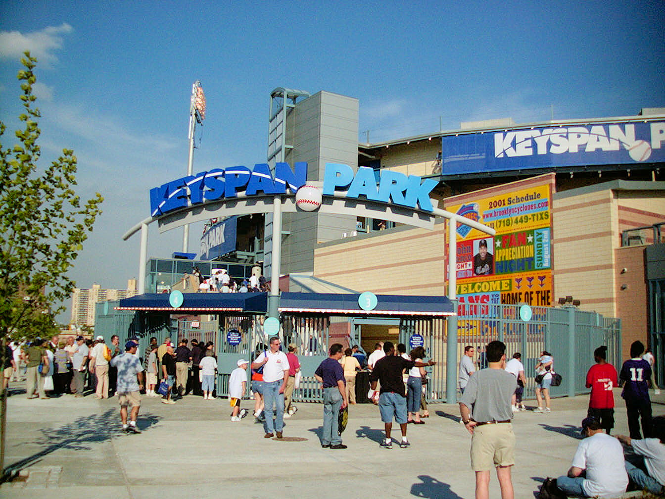 KeySpan Park, Brooklyn, New York on June 25, 2001, just before the first-ever home game for the minor league Brooklyn Cyclones. The game marked the first professional baseball game in Brooklyn since the departure of the Brooklyn Dodgers in 1957. Copyright 2006 - Robert S. Anthony, Stadium Circle Features